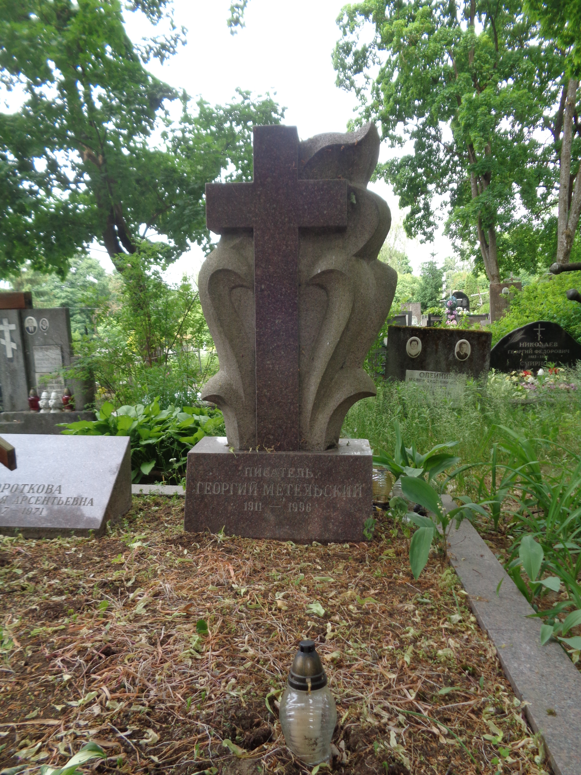 The grave of the writer Georgyj Metelsky (1911—1996) in the Euphrosyne Cemetery (Vilnius)